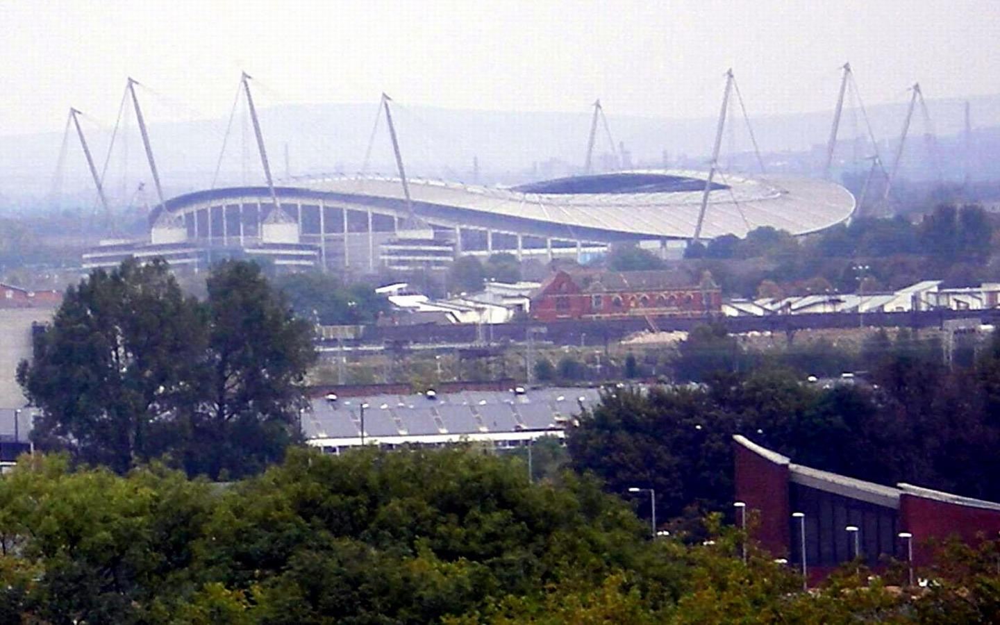 City of Manchester Stadium from a distance